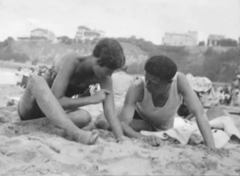 Lucien Lelong in Biarritz with his second wife, Princess Natalie Paley of Russia